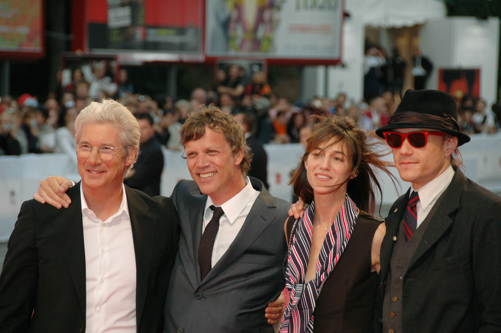 Cast of "I'm not there": Richard Gere, Todd Haynes, Charlotte Gainsbourg and Heath Ledger. Mostra 2007